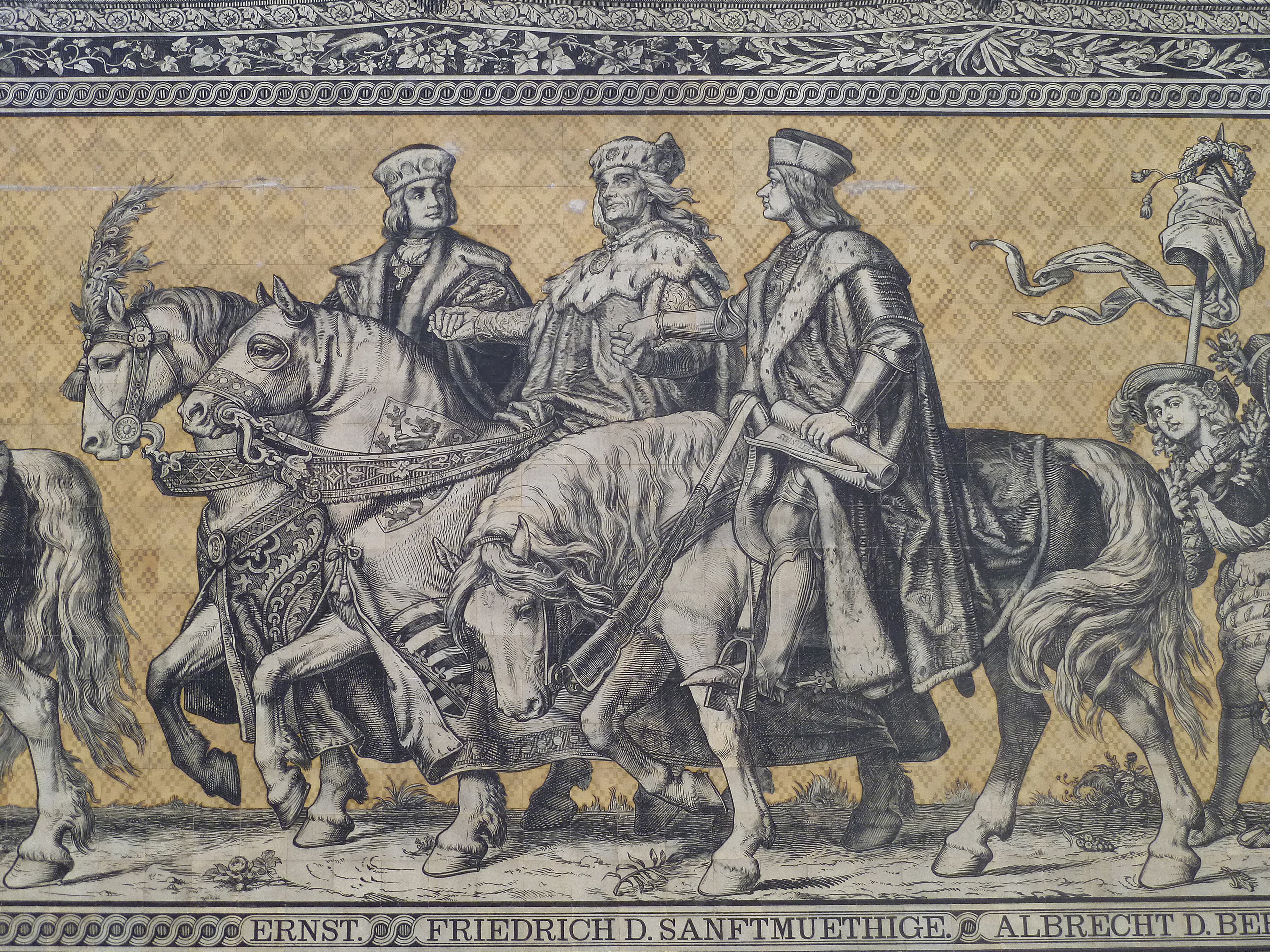 Ernest, Elector of Saxony (1464–1513), Frederick II, Elector of Saxony (1412–1464) and Albert III, Duke of Saxony (1443–1500); Fürstenzug, Dresden, Germany